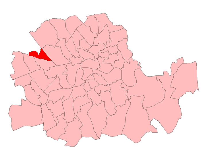 A map of Paddington North constituency within the London County Council area, as it existed from 1918 to 1949.